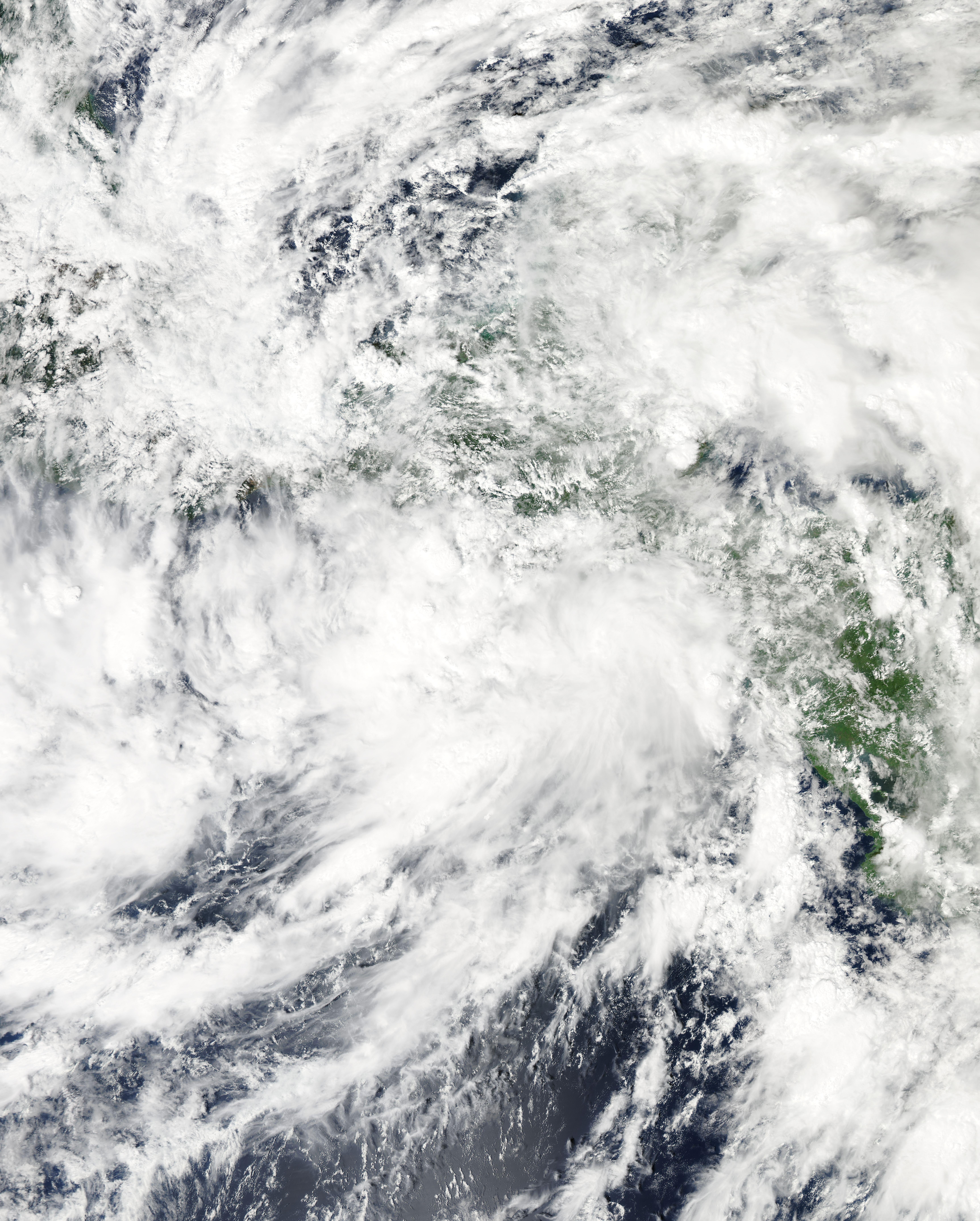 Aqua MODIS satellite imagery of the precursor to Hurricane Patricia at 19:30z on October 17, 2015.